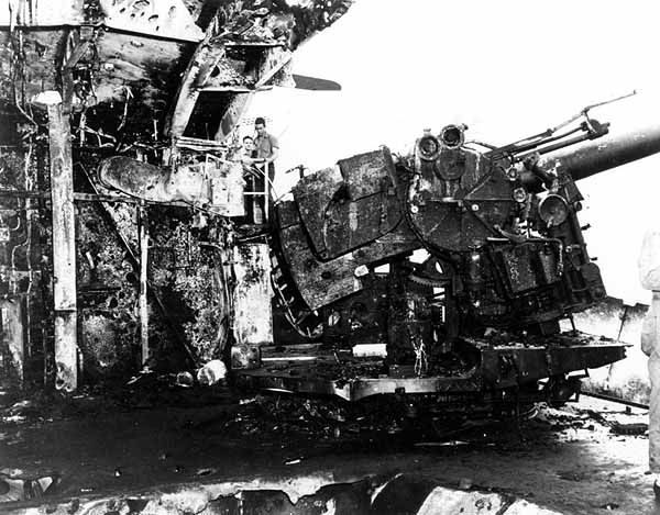 view of the 5"/38 Mark 12 dual-purpose gun number No.5 of III. battery on the aft-starboard side of the U.S. Navy aircraft carrier USS Enterprise (CV-6), circa in late August 1942. This battery was heavily damaged by the 2nd bomb-hit during the Battle of the Eastern Solomons on 24 August 1942. 38 crewmembers died including Photographer's Mate Robert F. Read. 10 of them were never identified.